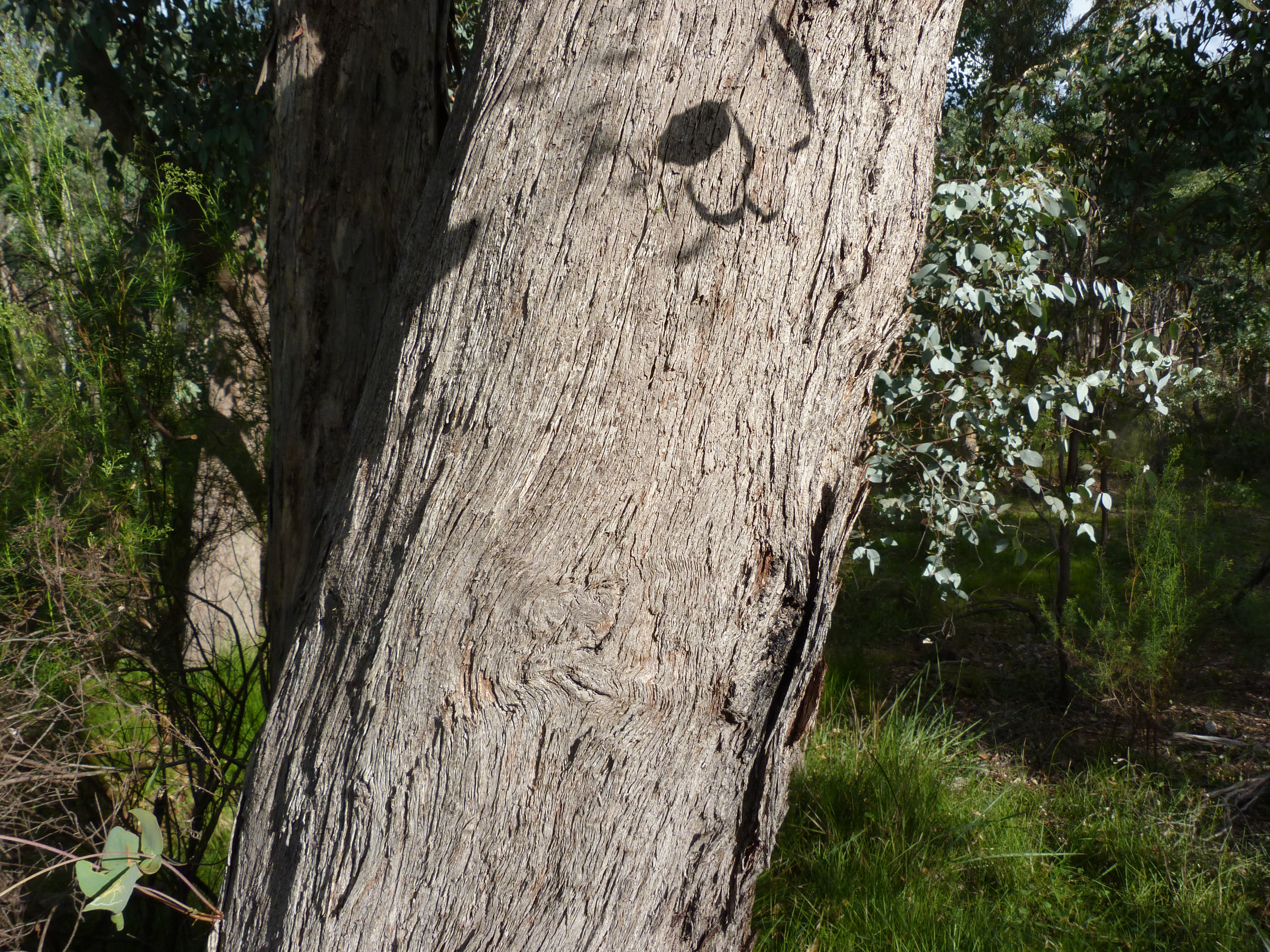 Eucalyptus dives Schauer, Black Mountain, Canberra, ACT, 19 January 2011 Crushed leaves smelling of mint